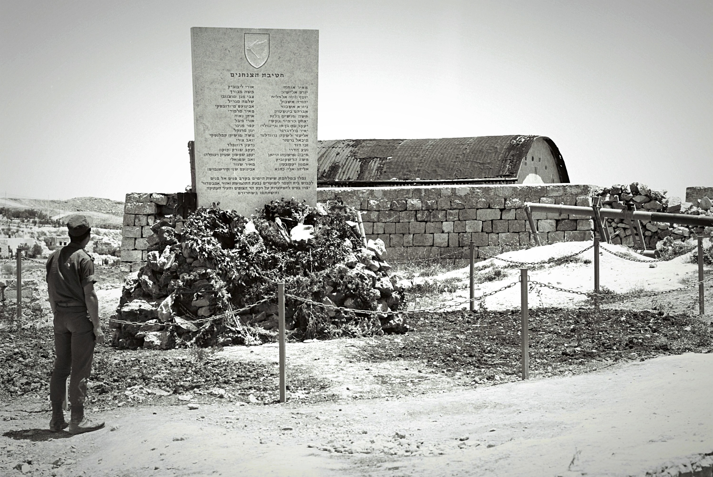 A memorial for fallen paratroopers on Ammunition Hill in Jerusalem.